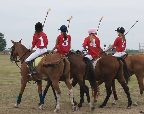 A group of girls about to step onto the polo grounds in Maple Plain, MN as part of the annual "Polo Classic" fundraising event.